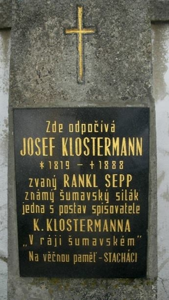 Detail of gravestone in a cemetery in the Stachy (on the left of the entrance) (Šumava - Bohemian Forest, Czech Republic). In the tomb there is buried Joseph Klostermann (* 1819 - 1888), alias "Rankelský Sepp" or abbreviated "Rankl Sepp" - a legendary figure Sumava - kindhearted strongman, whose in his novel "The Šumava Paradise" (V ráji šumavském) captured the writer Karel Klostermann. In a common grave is also buried his wife Cecily (nee Krickelová) (* 1844 - 1928).